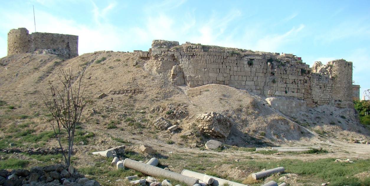 St.Louis castle on the ancient Acropolis Hill. Sidon